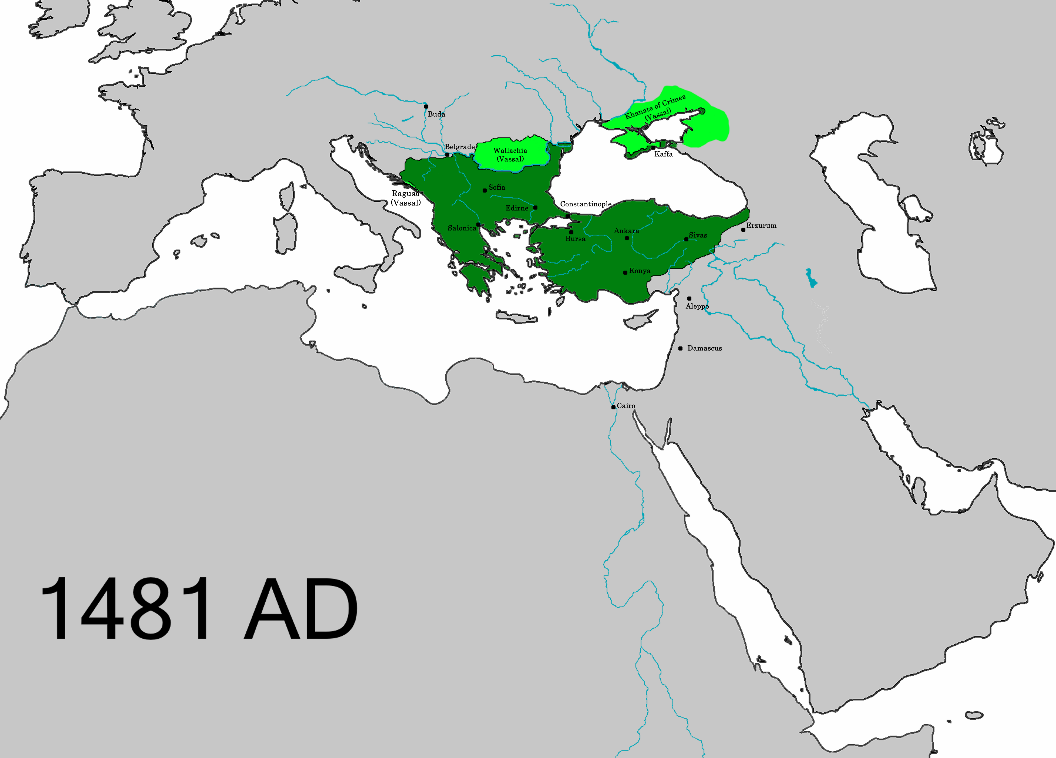 A depiction of the Ottoman Empire and its vassal states in 1481 AD. Borders follow Shepherd (1923).